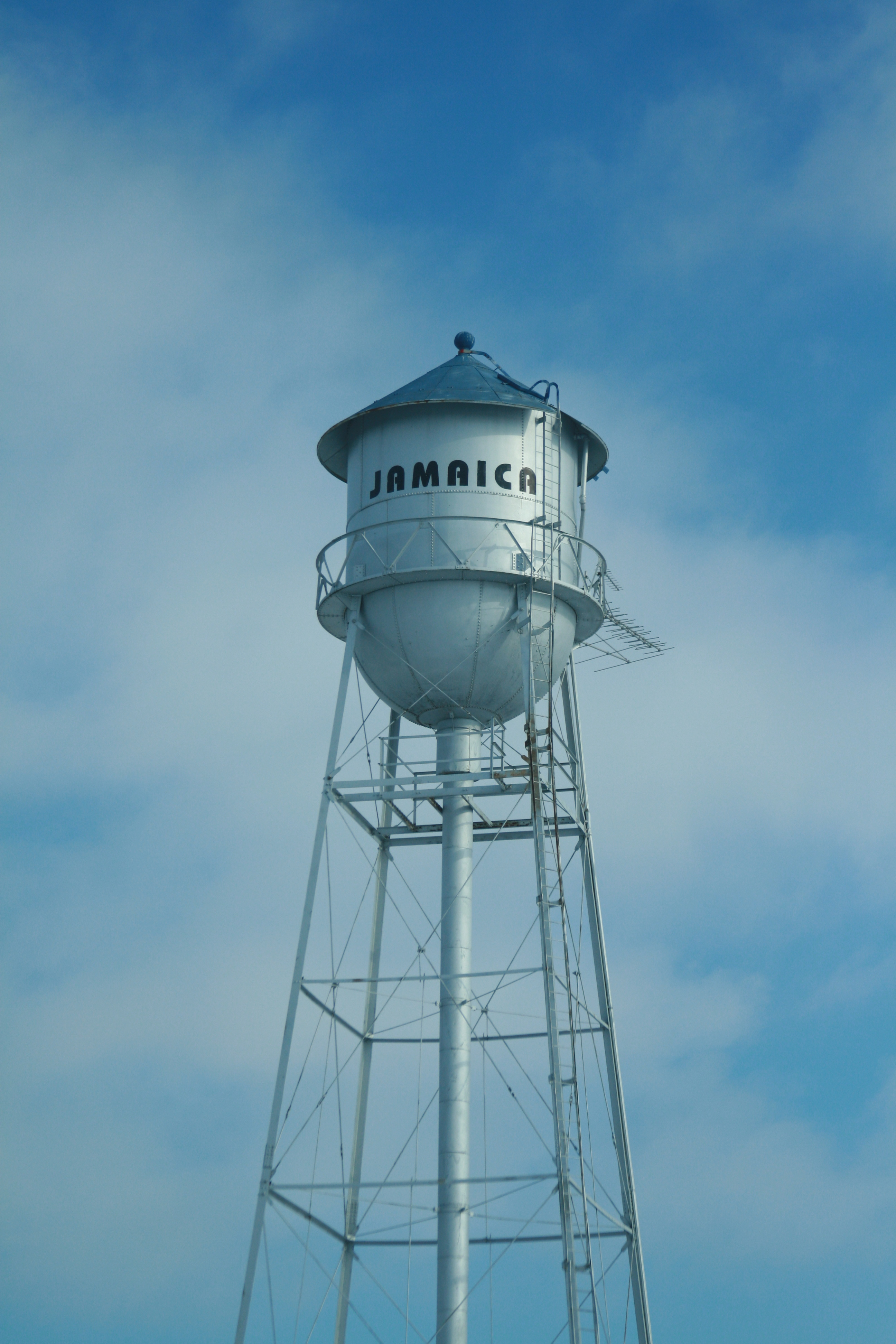 Water tower located in Jamaica, Iowa